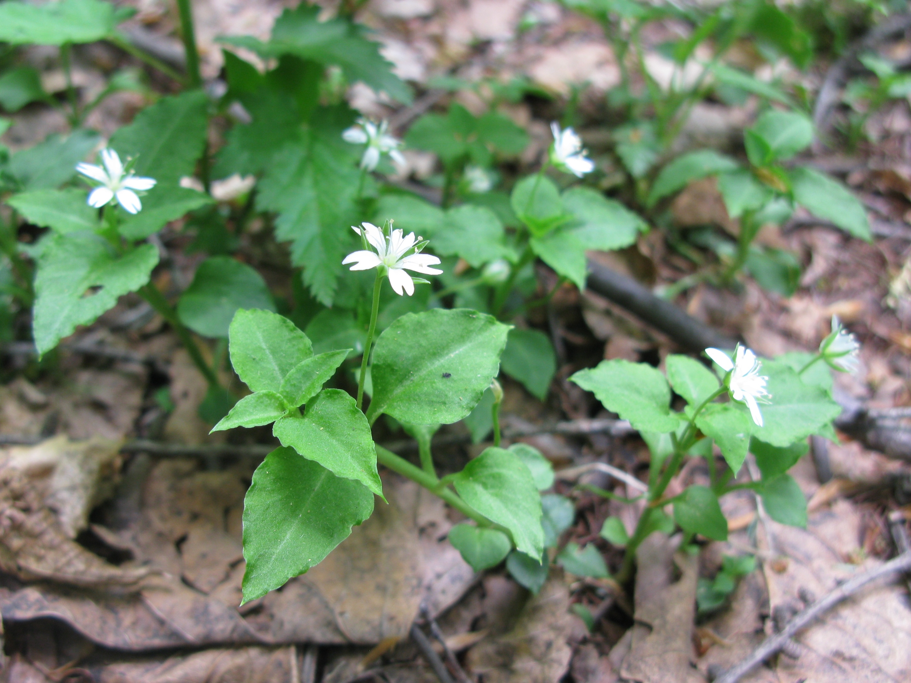 Stellaria diversiflora, Aizu area, Fukushima pref., Japan